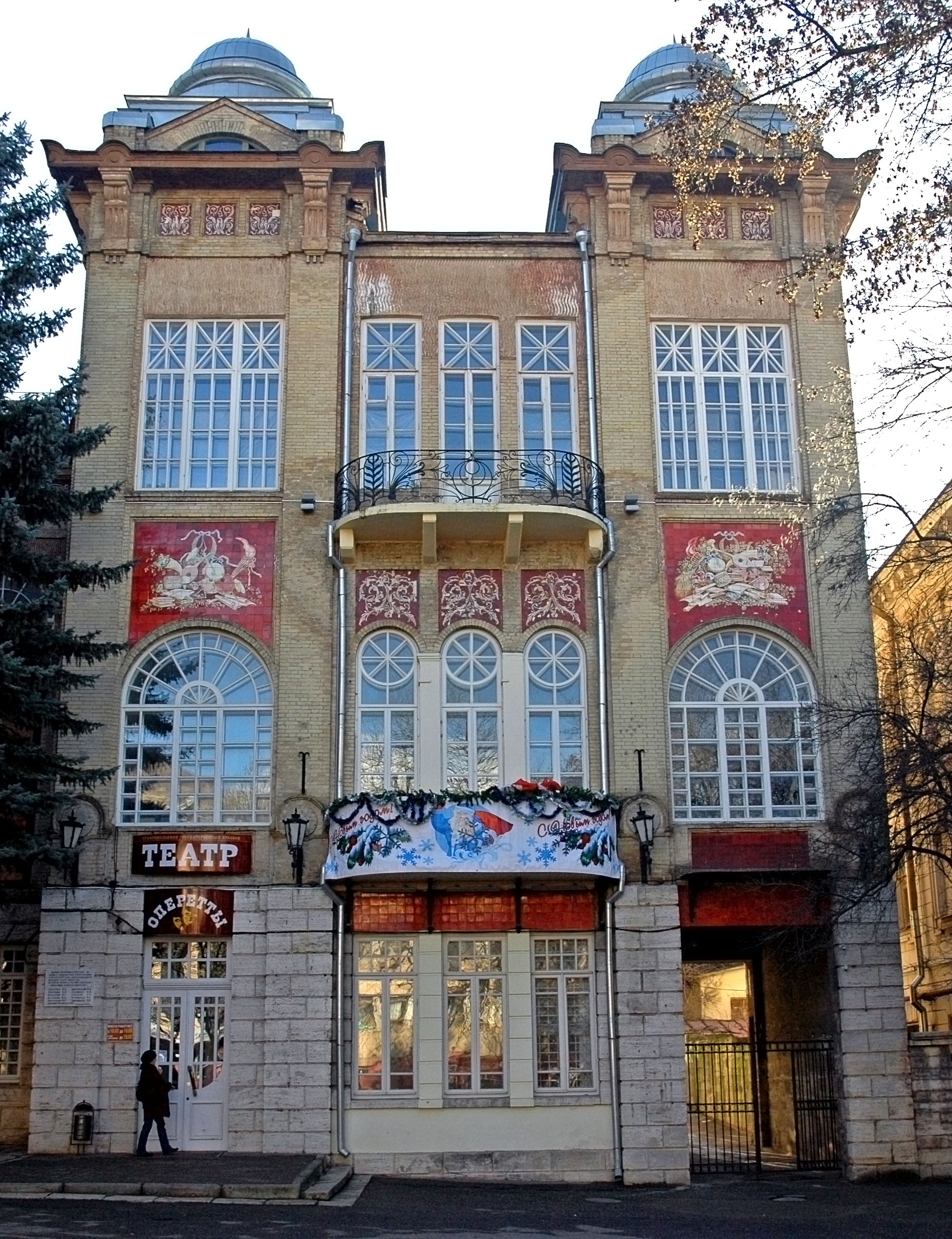 Facade and main entrance to the Stavropol State Operetta Theater situated in Pyatigorsk